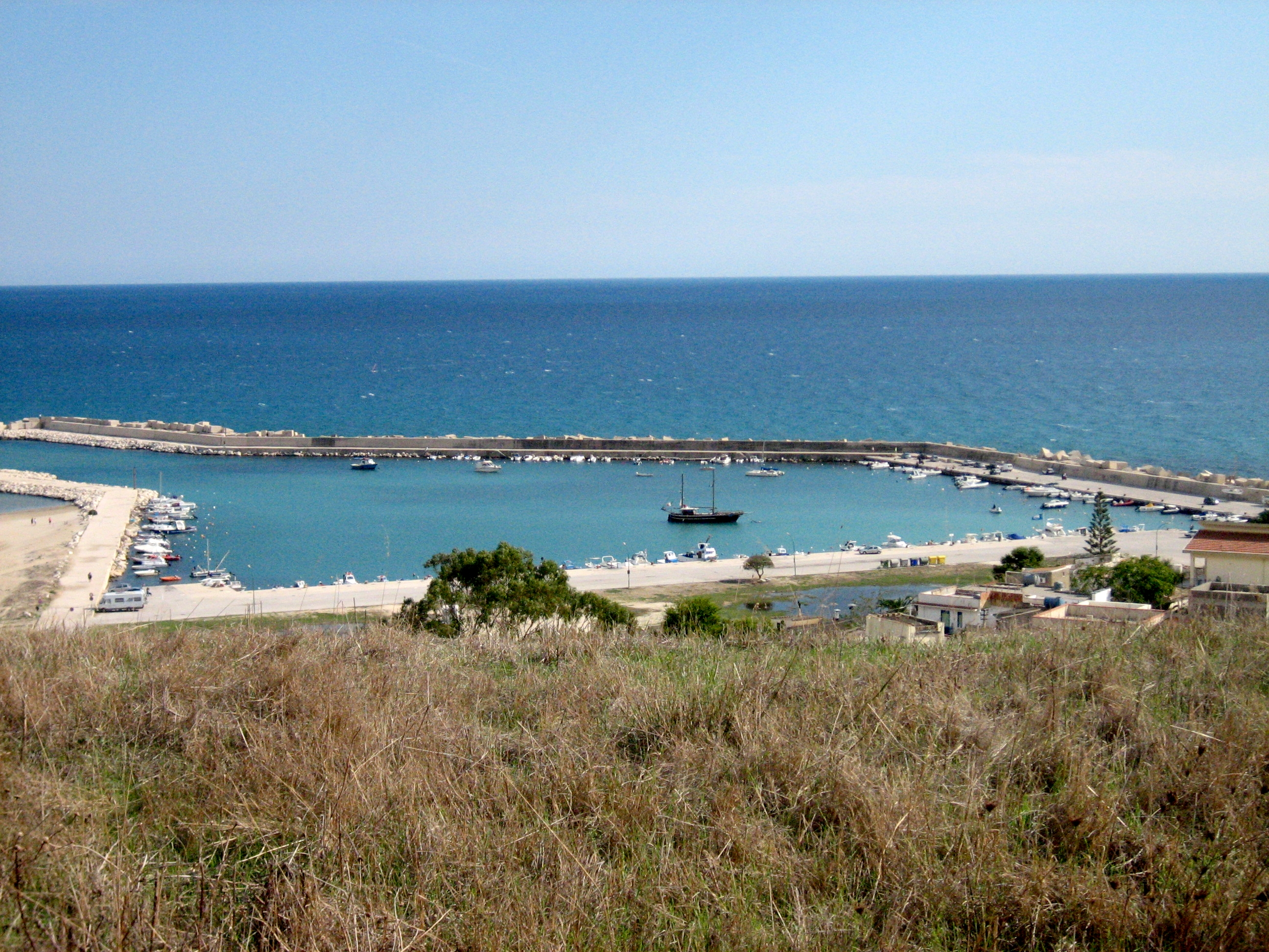 The harbour of Porto Palo in the municipality of Menfi, Sicily.